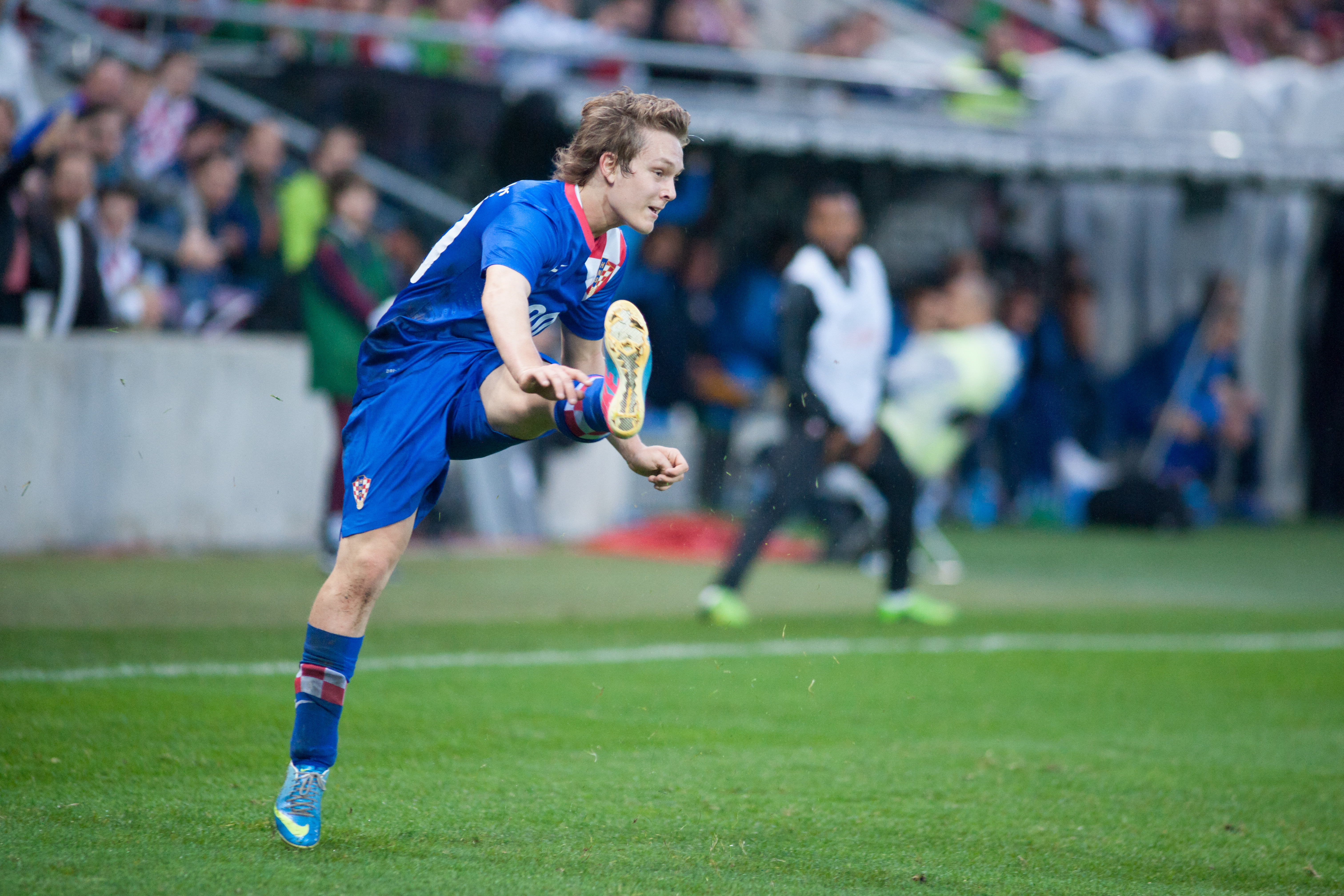 Croatia vs. Portugal, 10th June 2013